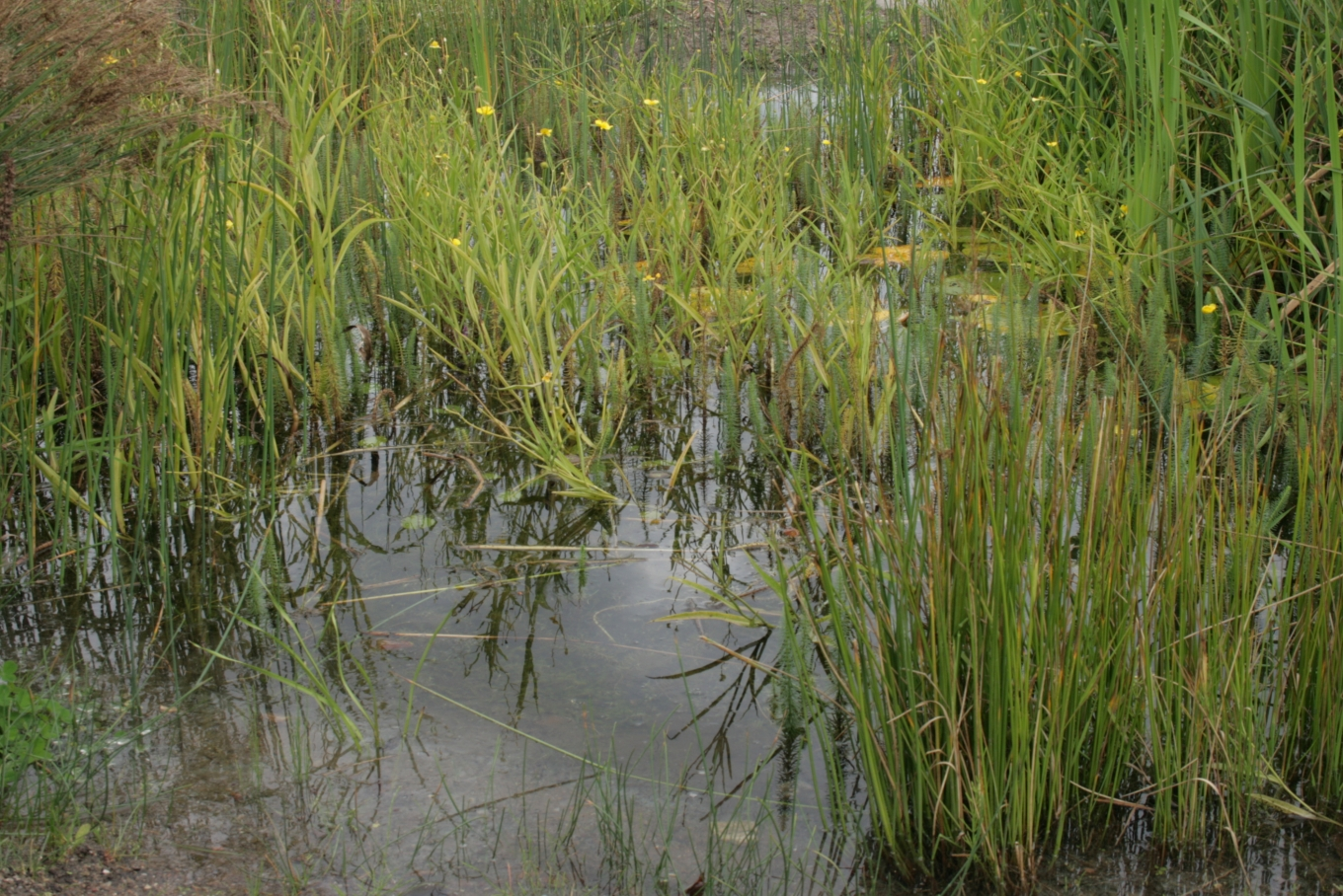 Rich fen (Photo from the Botanical Garden of Aarhus, Denmark)